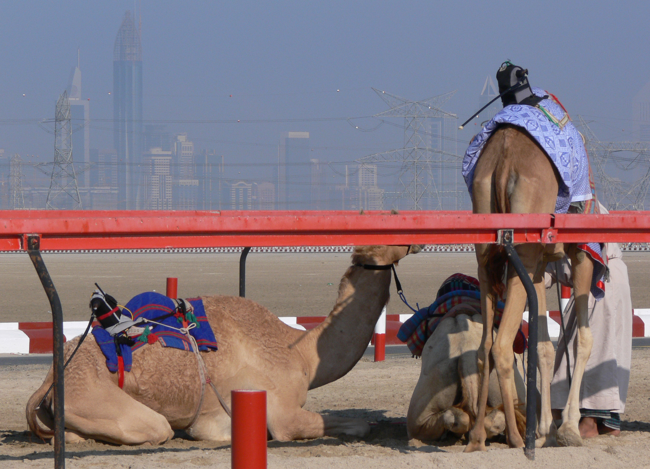 Robotic camel racing jockey test